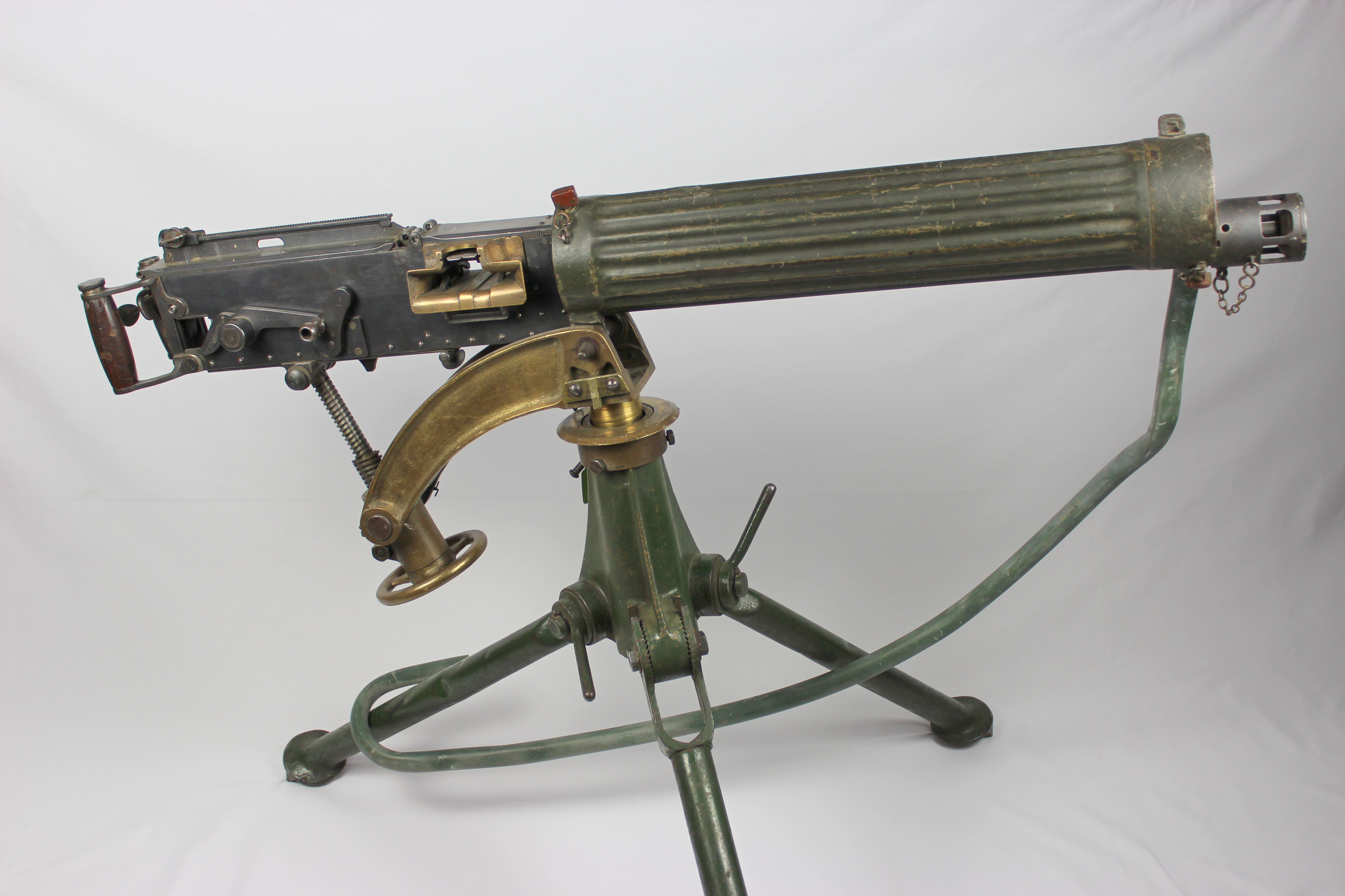 Standard Vickers machine gun with tripod mount and associated ammunition belt, ammunition box plus petrol can (as a condenser can) with hose. The Vickers Gun was the standard British machine gun from 1912. It was heavy and mounted on a tripod, requiring a team of six men to transport it to and operate it on the battlefield. Although difficult to use on advancing troops, machine guns were used to deadly effect from defensive positions.